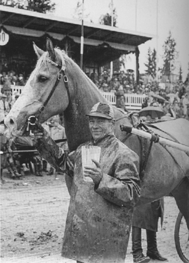 Finnhorse gelding Reipas during the Lahti Kuninkuusravit in 1958, where he won both of the high-level handicap starts.